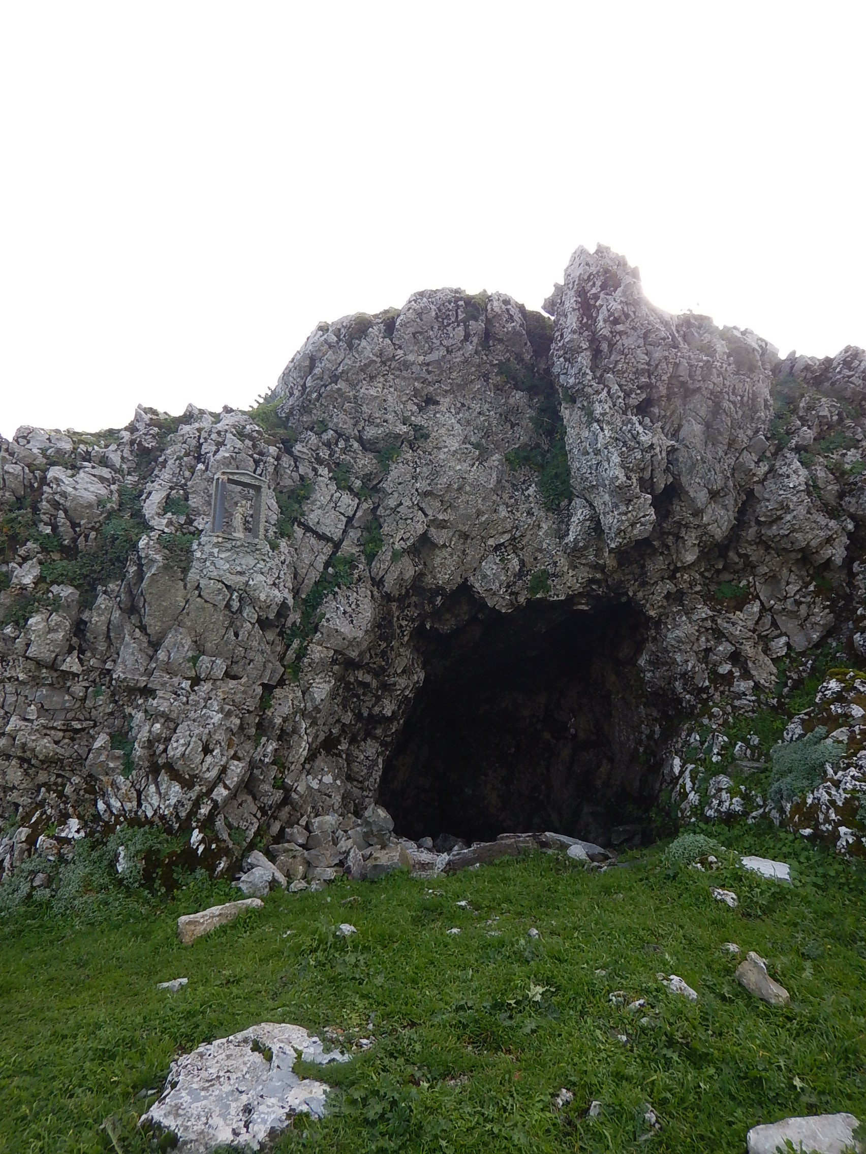 the cave on the top of mount Scuderi, Peloritani mounts, Sicily